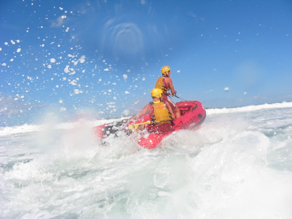 inflatable rescue boat in navegation